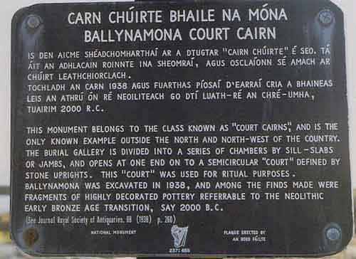 Old Parish Court Cairn